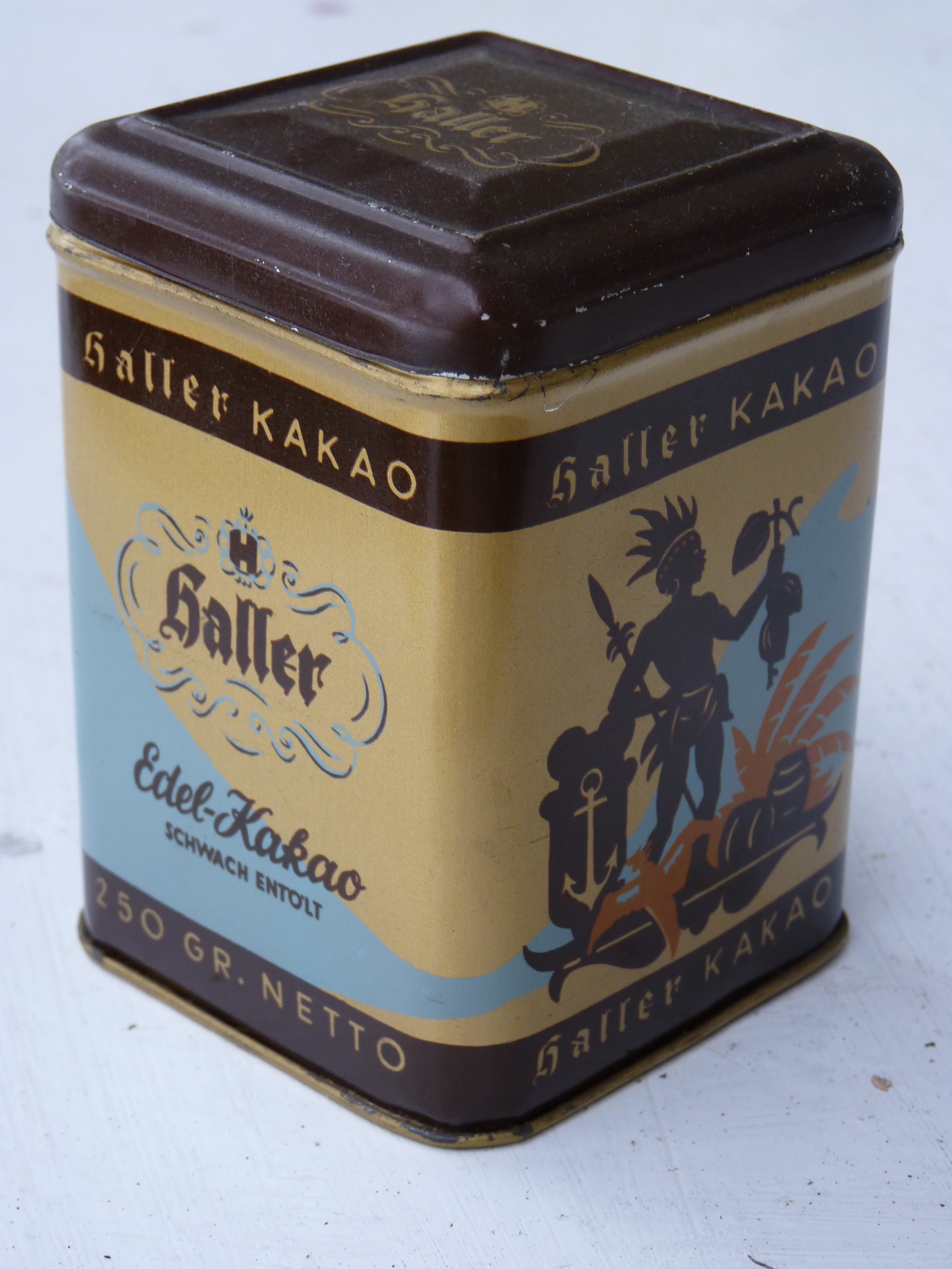 Haller cocoa tin